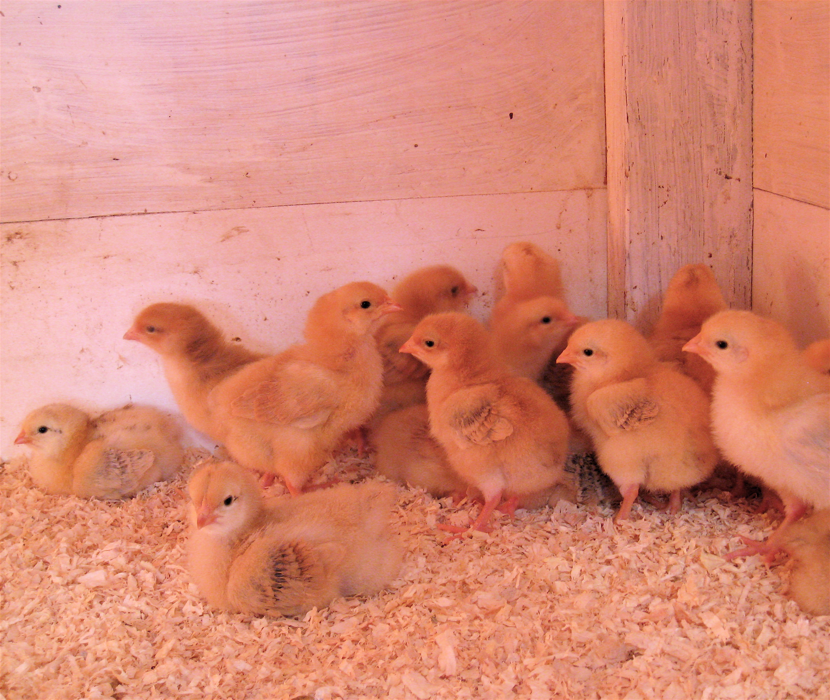 Visited a local farm today. The animal parents seem so sedate with their young. The nesting hens seem to be in a hormonal stupor as you reach underneath and remove the warm eggs. Oh, no to worry, I?ll make more? It reminded me of a recent lecture by Susan Blackmore: ?My cat gives birth to a litter, purring all the way. It?s very different with humans and our large heads. It was a dangerous step in evolution. 2.5 million years ago, we started imitating each other. Our peculiar big brains are driven by the memes, not our genes. Language, religion and art are all parasites. We have co-evolved, adapted and become symbiotic with these parasites.? Even more mind-bending was a side conversation with Nathan Myhrvold, who has a full T-Rex fossil in his library. He is well down the planning path for a Jurassic Park experiment. Rather than try to repair archaeological dino DNA, Nathan turns to the silenced and mutated genes within modern birds. It?s an extreme form of genetic archaeology. He hopes to reverse the evolutionary march, so that a modern bird could hatch its distant dino predecessor. Having surveyed numerous birds, including rare ones with wing-tip fingers, he concluded that the simple chicken would be the best starting point. From a chicken & egg perspective, the egg comes first.